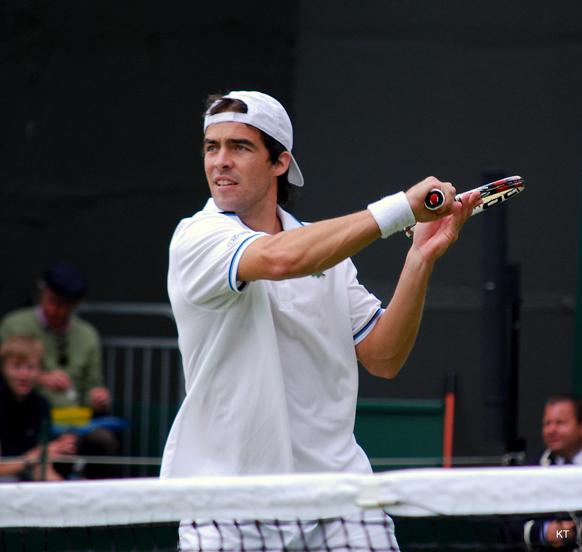 Day 2 of Wimbledon 2011.